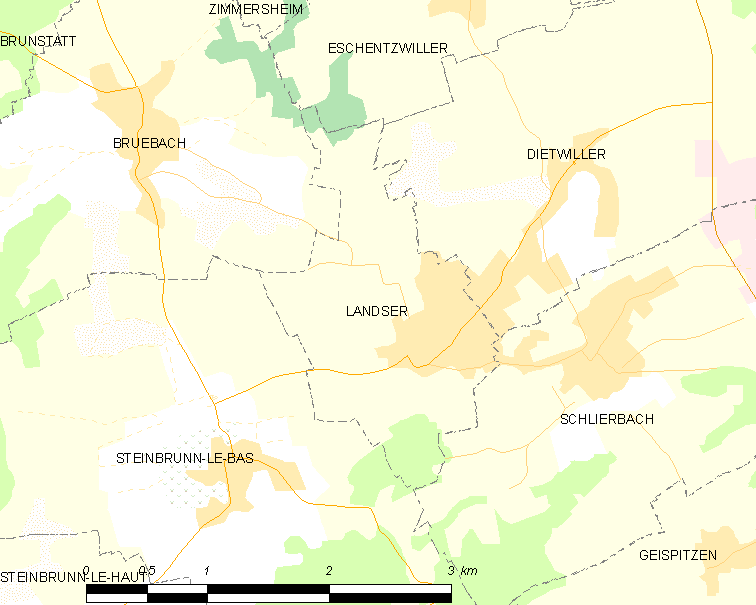 Map of French municipality